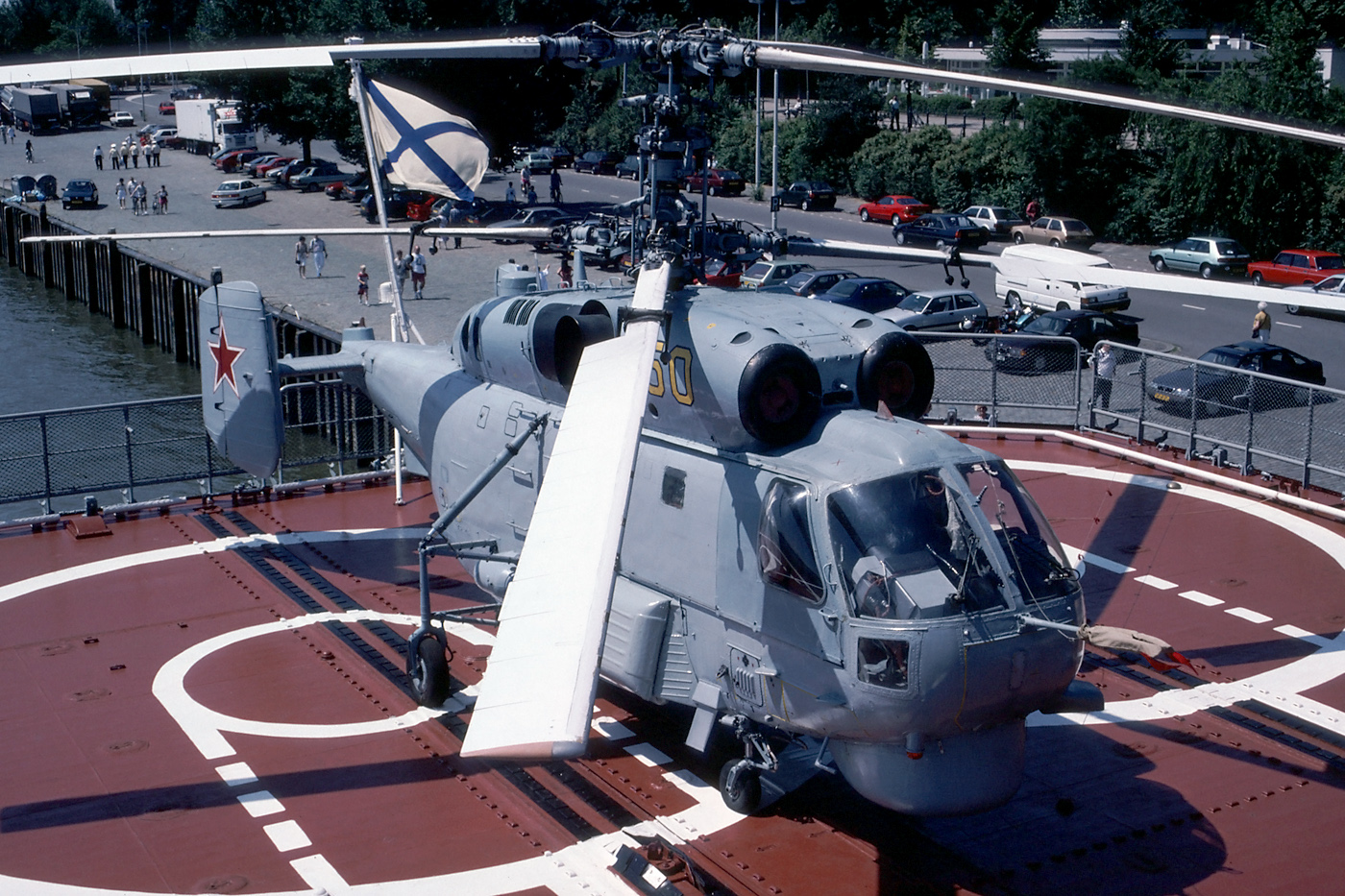 This Ka-27PL 'Helix-A' was on board the Russian destroyer Admiral Kharlamov during a visit to Rotterdam in July 1994. Another of these anti-submarine warfare helicopters was in the hangar.